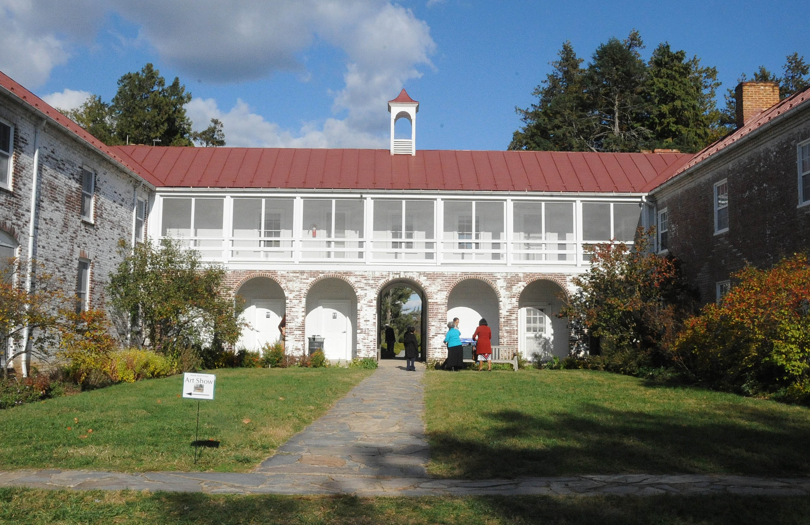 THIS WAS THE ESTATE OF GRAHAM F. BLANDY WHO BEQUEATHED A PORTION TO THE UNIVERSITY OF VIRGINIA TO TEACH BOYS THE FUNDAMENTALS OF AGRICULTURE. IT HAS NOW BECOME THE ARBORETUM OF VIRGINIA. SLAVE QUARTERS BUILT IN 1825 BUT GREATLY ENLARGED IN 1941. THIS IS NOW USED AS A MULTIPURPOSE BUILDING IN THE ARBORETUM